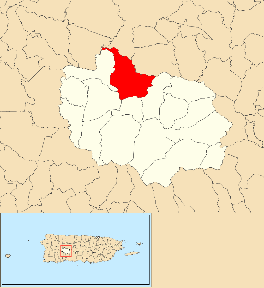 Tanamá, Adjuntas, Puerto Rico locator map